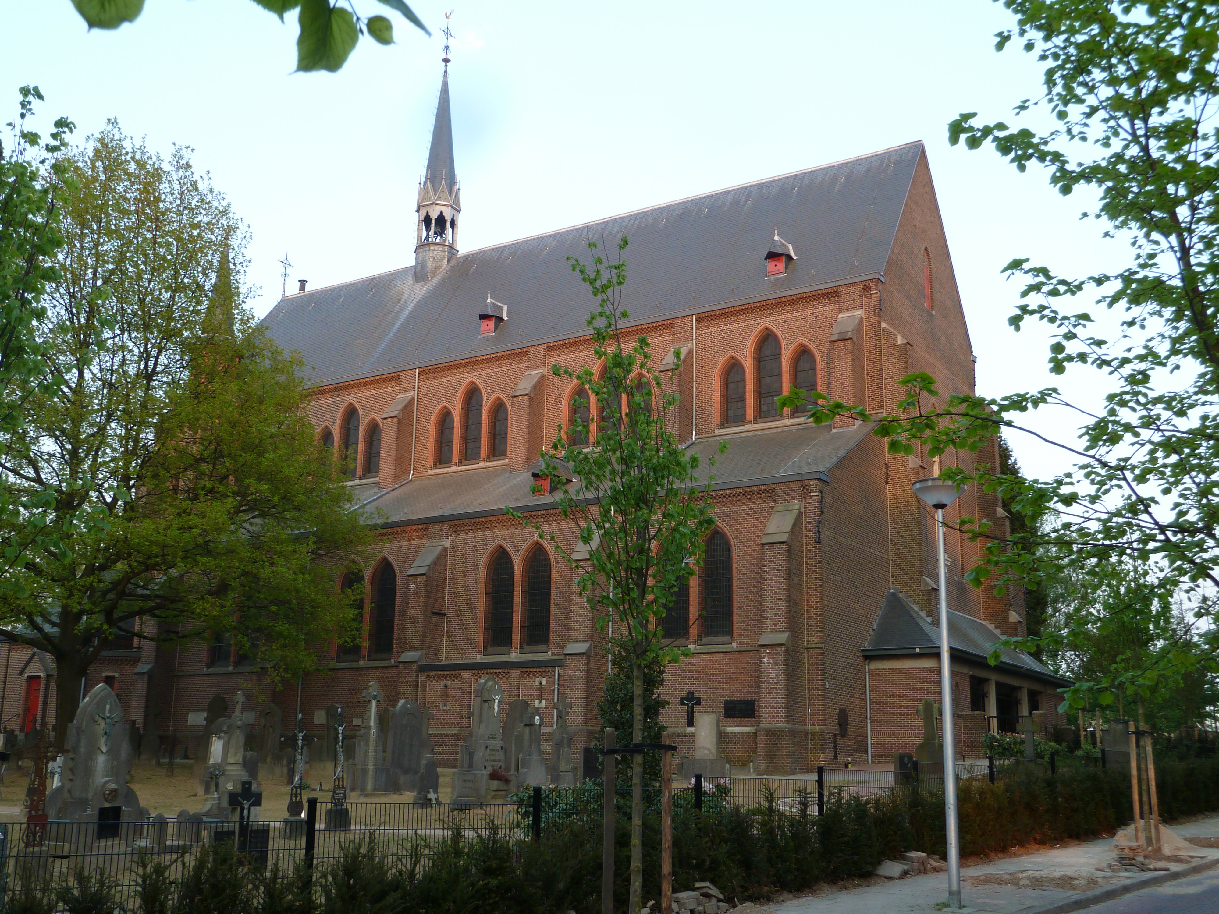 Johannes Evangelistkerk in Hoensbroek, Heerlen, Limburg, the Netherlands